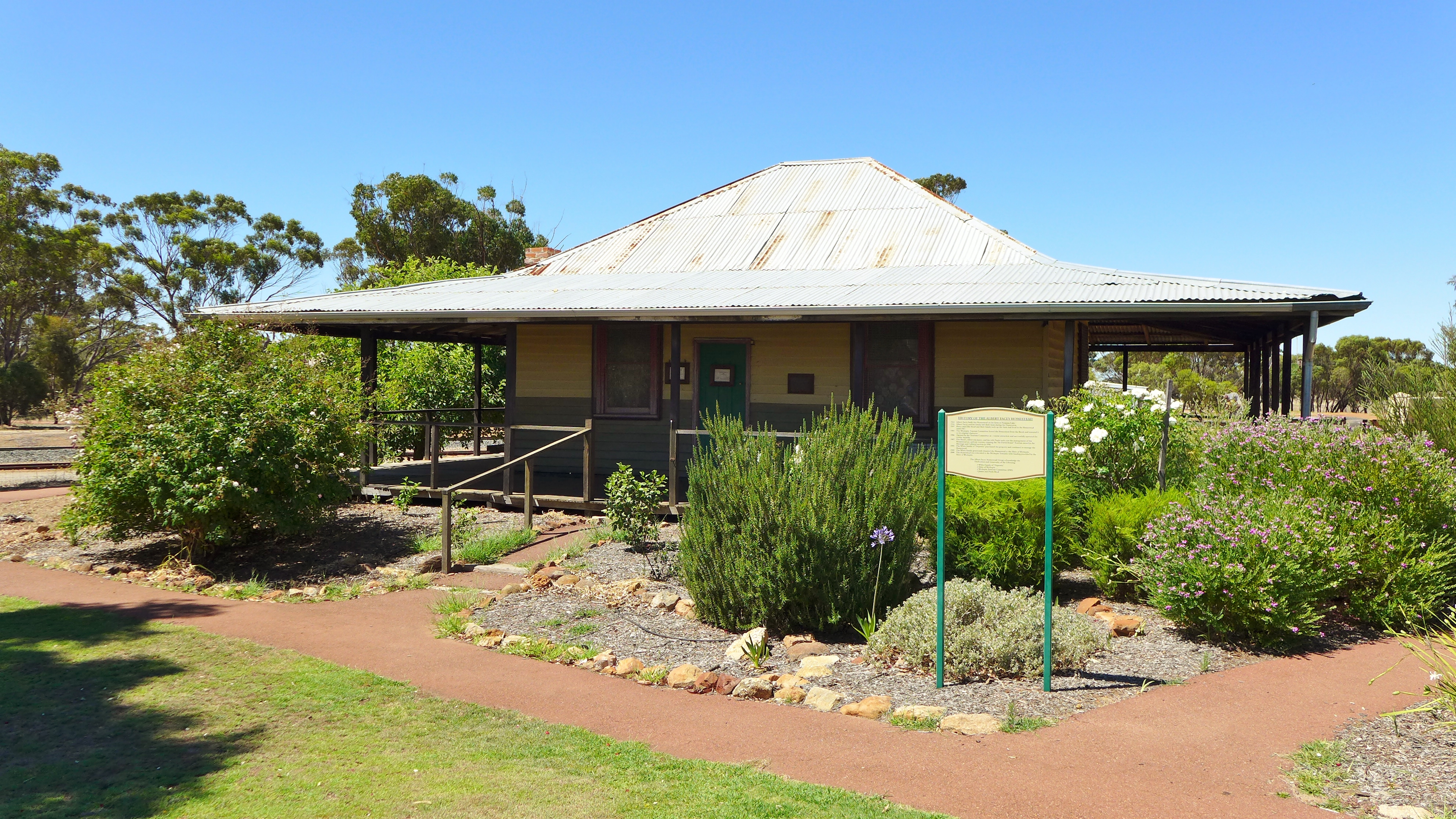 View of the Albert Facey Homestead, now located in Wickepin, Western Australia.